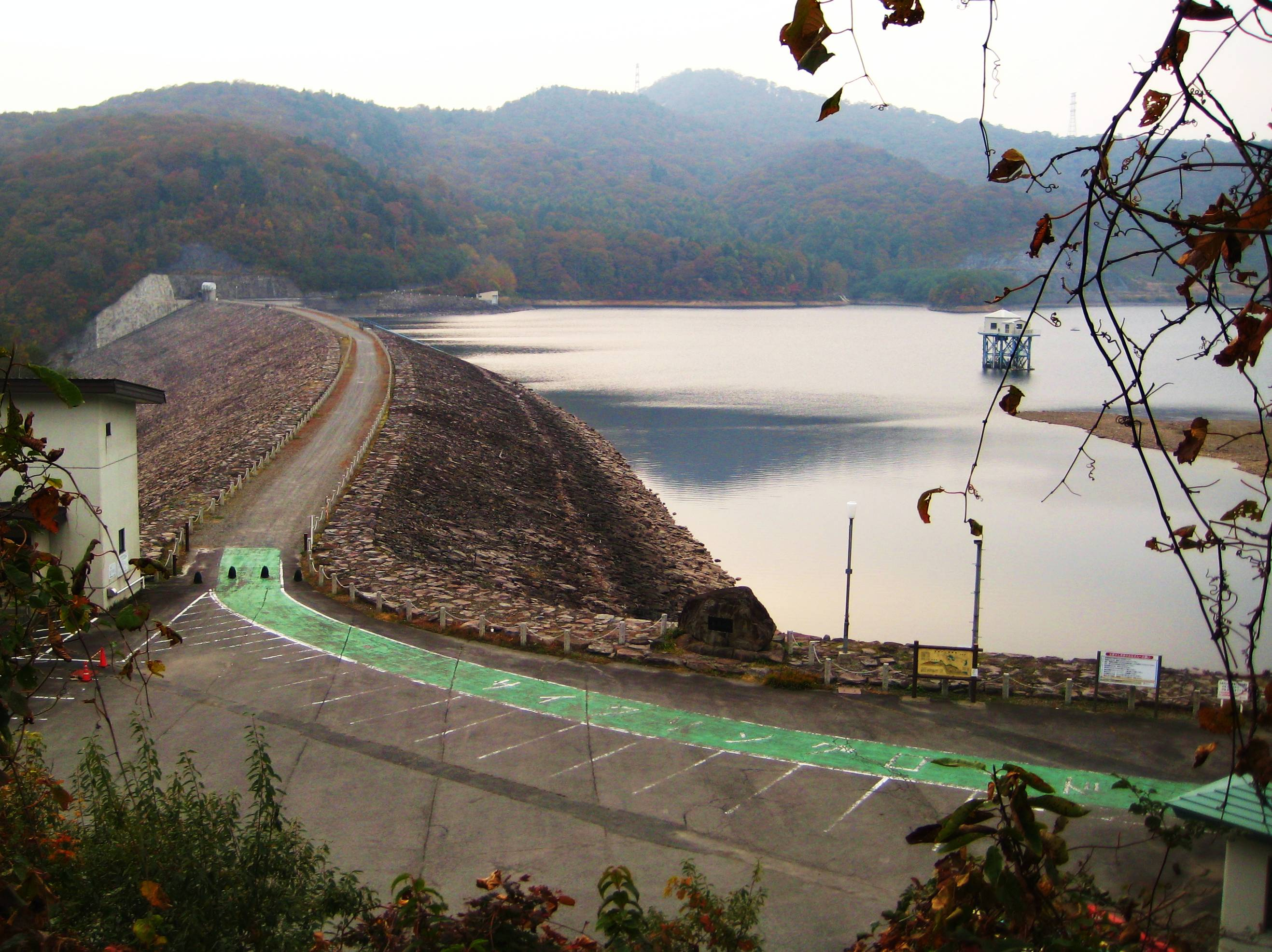 Tambara Dam.